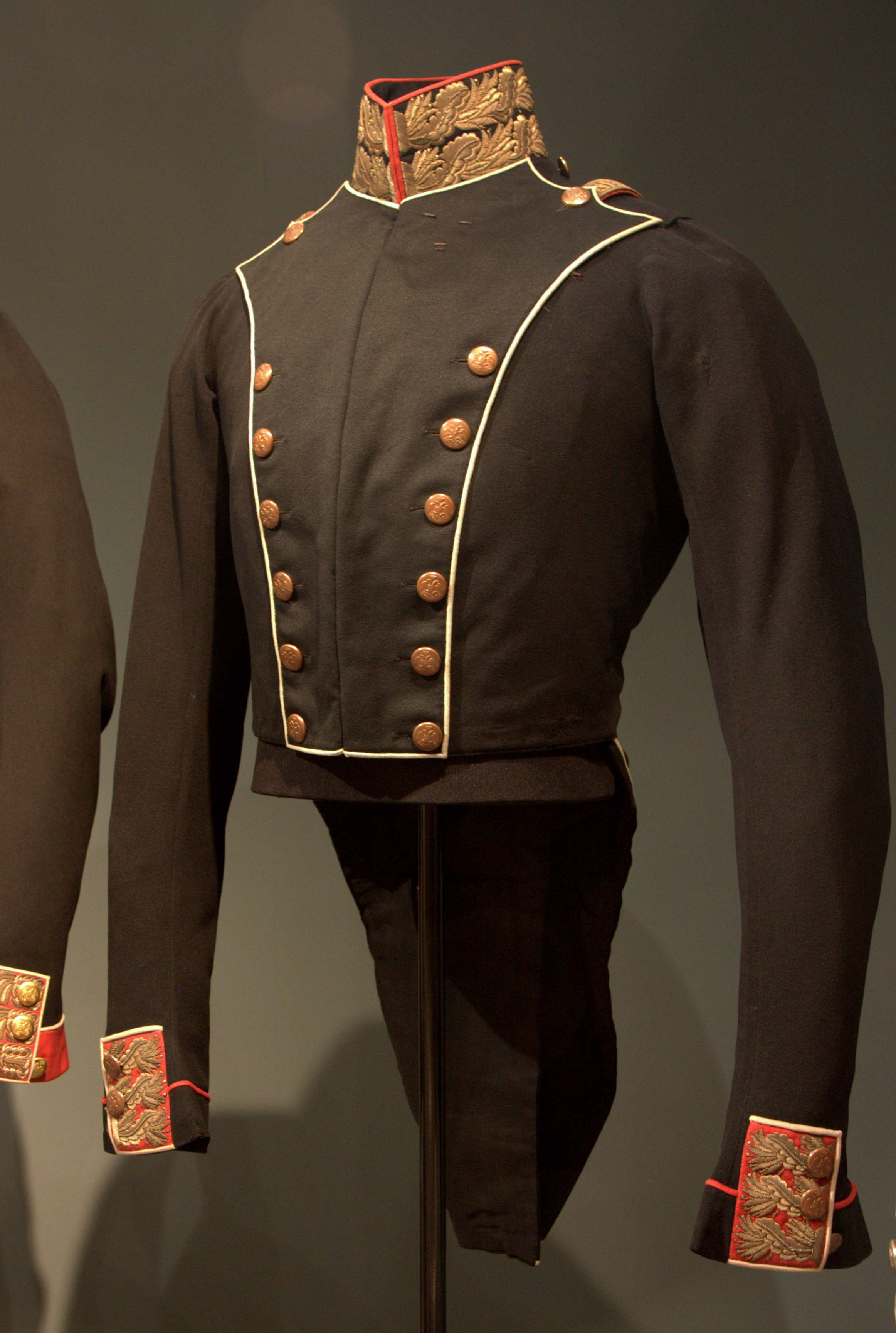 Tailcoat uniform of Nicholas I of Russia, honorary commander to the His Majesty Lifeguard Jaeger Regiment.